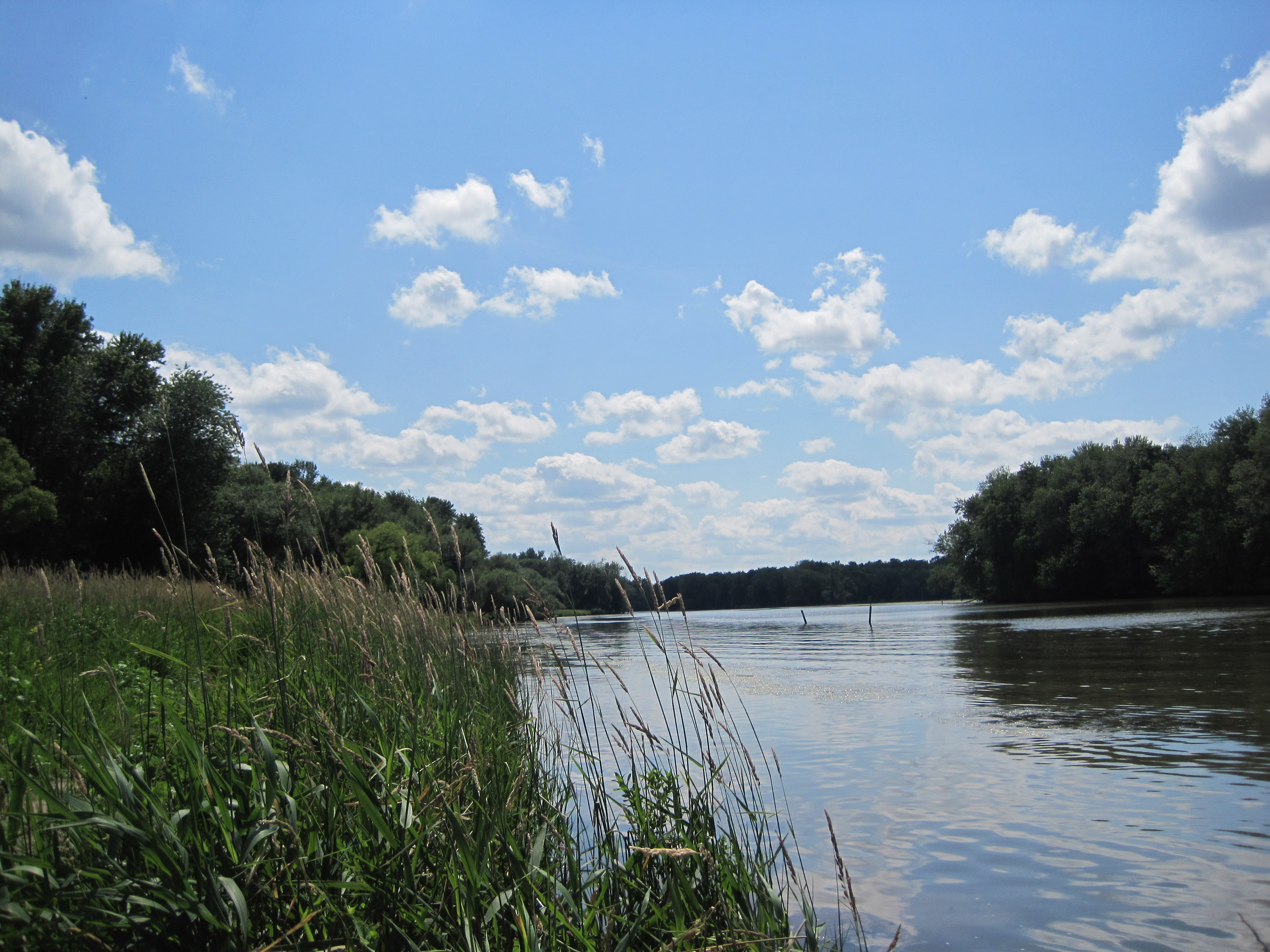 A shot of a segment of the Seneca River—here also serving as part of the Erie Canal—just above Bonta Bridge.